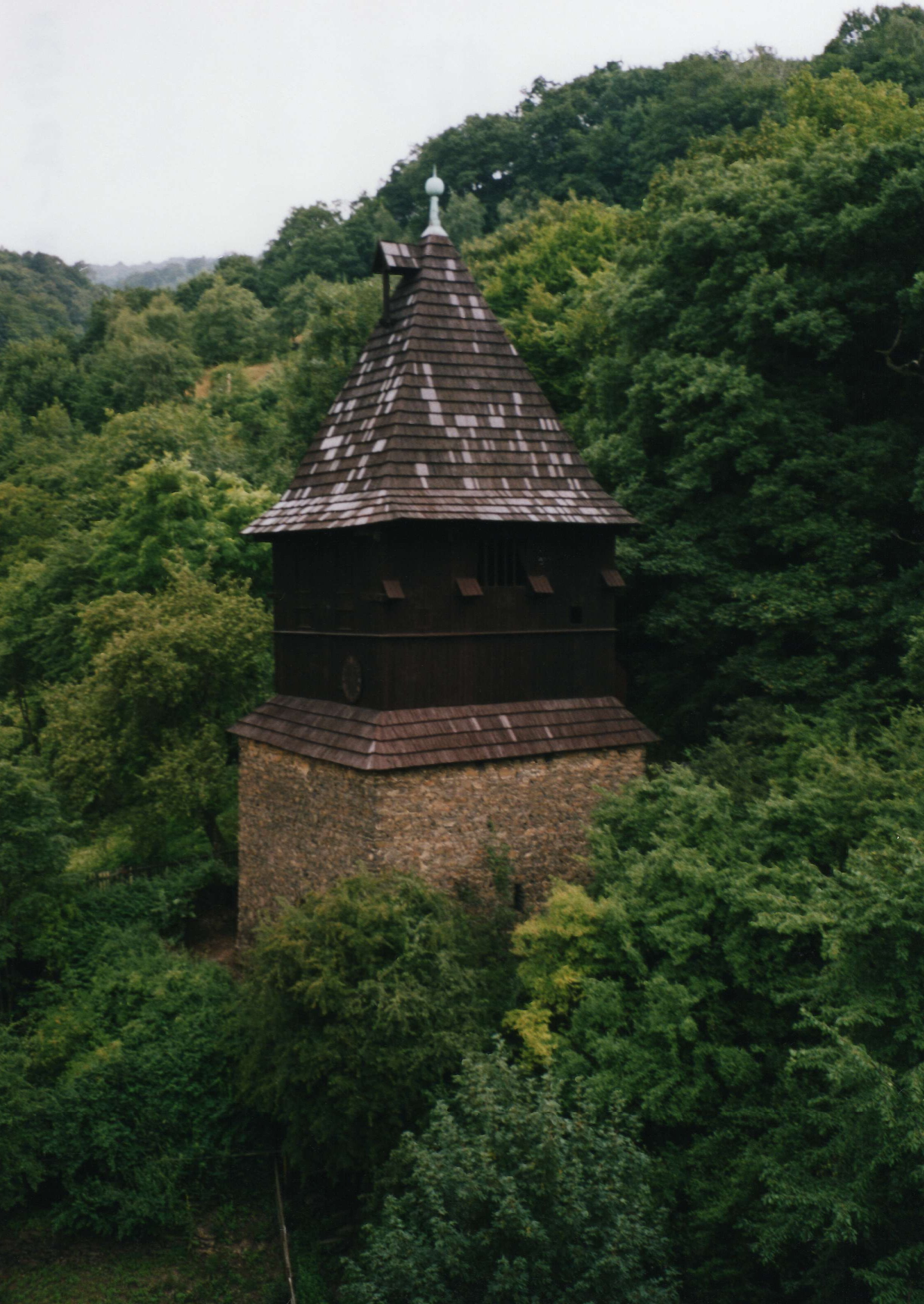 Stone bell tower with wooden bell-floor of Church of the Assumption in Krupka, Teplice District, Ústí nad Labem Region, Czech Republic